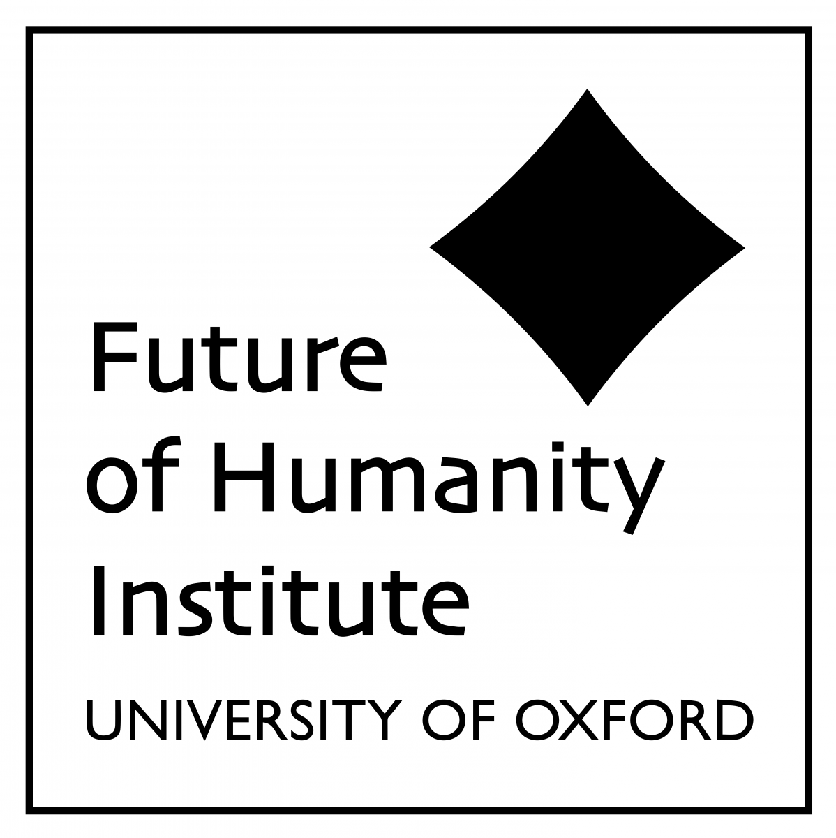 This is a logo for the Future of Humanity Institute. Further details: Brand device of the Future of Humanity Institute.